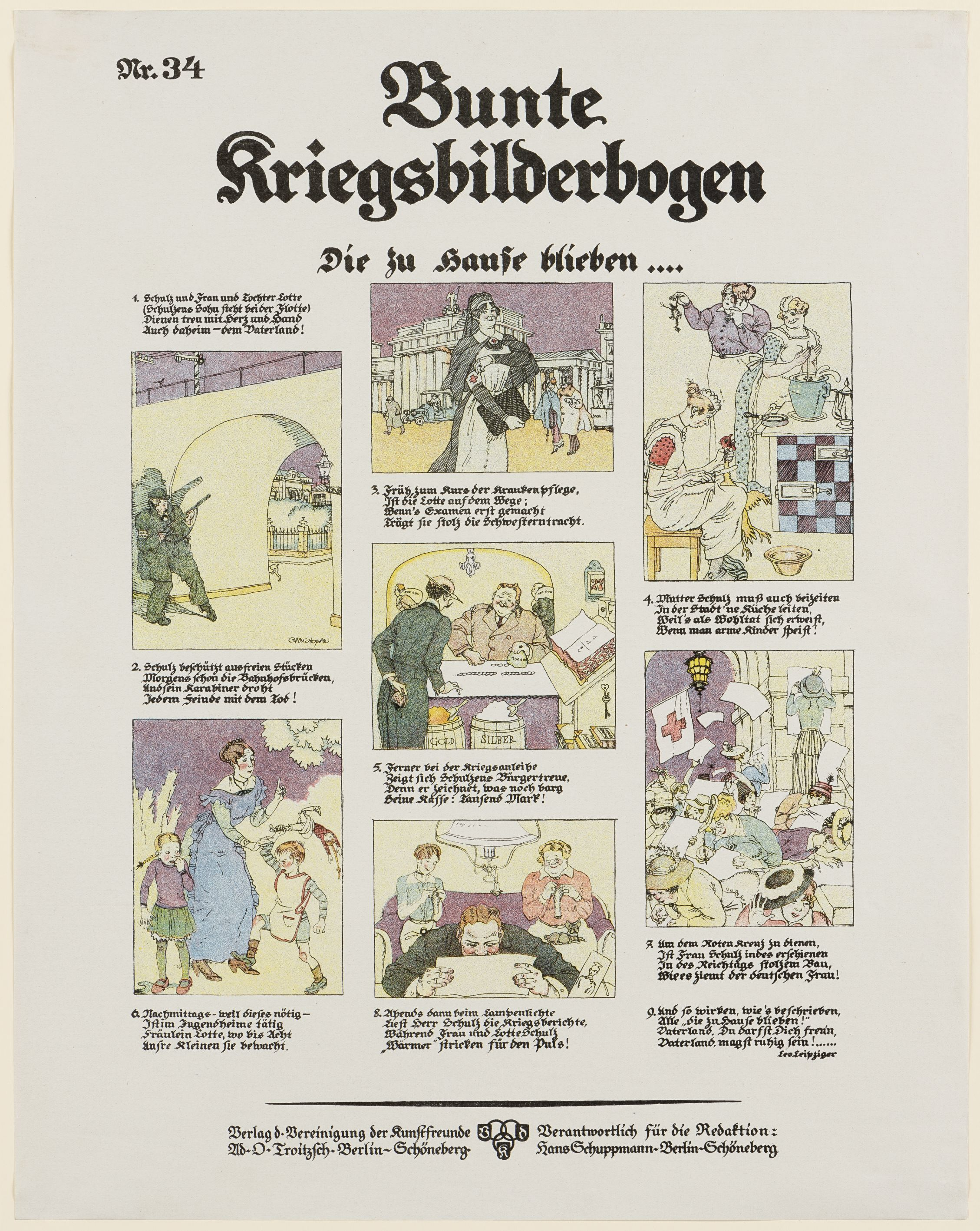 Colored war pictorial broadsheet No. 34 "Die zu Hause blieben ..." (Those who stayed home), drawing by Franz Christophe (1875-1946), text Leopold Leipziger, graphics, paper, colored print. 1914-1918. Repository of Historisches Museum Frankfurt (Historical Museum Frankfurt), Signature C45911. Published in Dorothee Linnemann (ed.): Damenwahl! 100 Jahre Frauenwahlrecht. Begleitbuch zur Ausstellung. Societäts-Verlag, Frankfurt am Main 2018, ISBN 978-3-95542-306-3, p. 97.